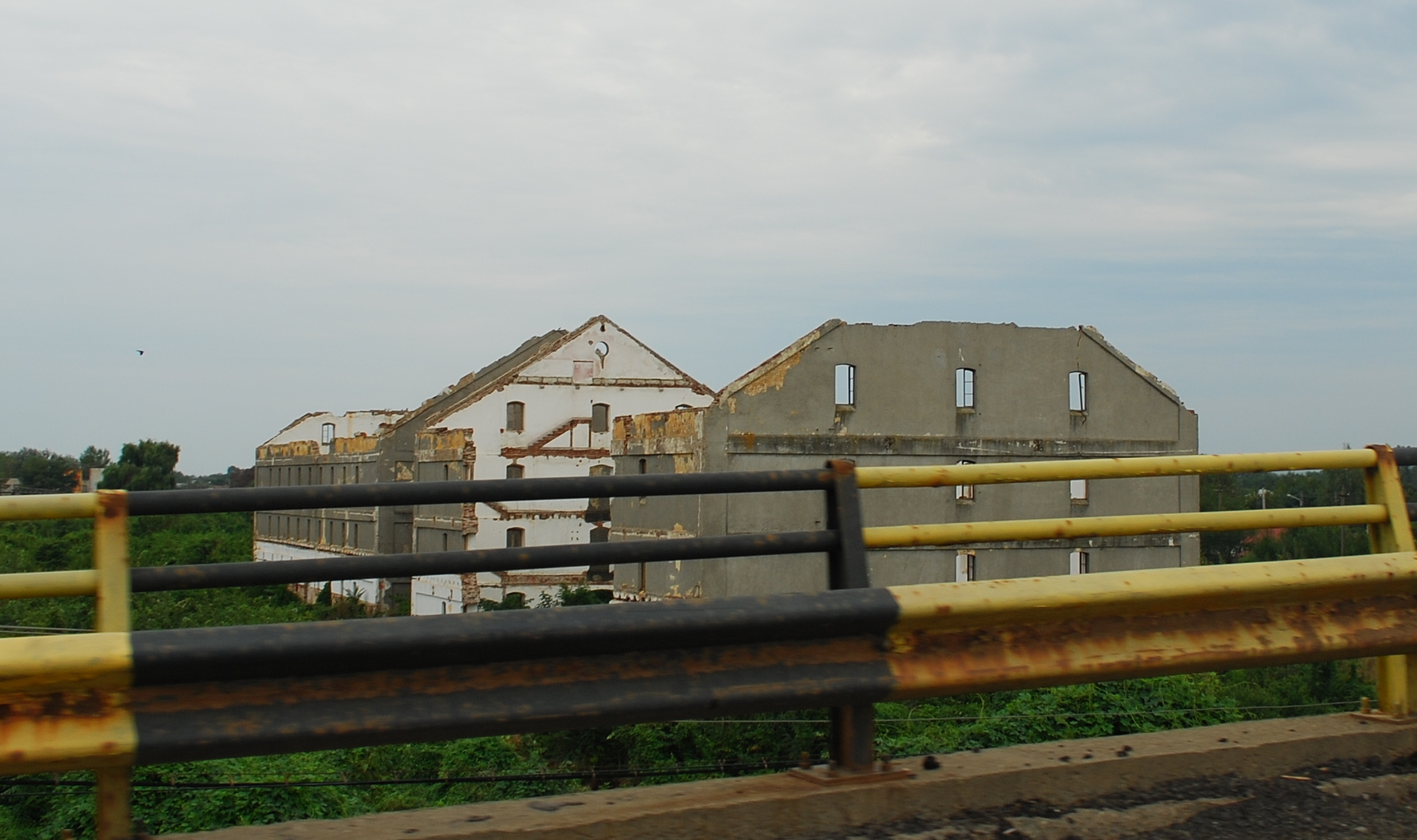 Former tobacco warehouse in Găești, Dâmbovița County, RomaniaRomână: Depozitul S.N. T. R. „Tutunul Românesc” din Găești, județul Dâmbovița, România